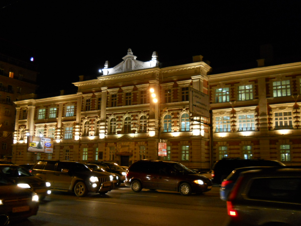 Moscow, Garden Ring, Sadovaya-Kudrinskaya Street, 6, by night.